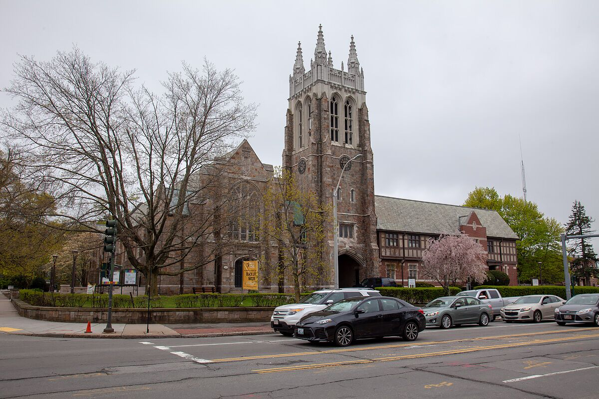 First Unitarian Society of Newton. Designed by Ralph Adams Cram. Cornerstone laid in 1905. Located on corner of Washington Street and Highland Street in West Newton, MA. Photo by John Borchard